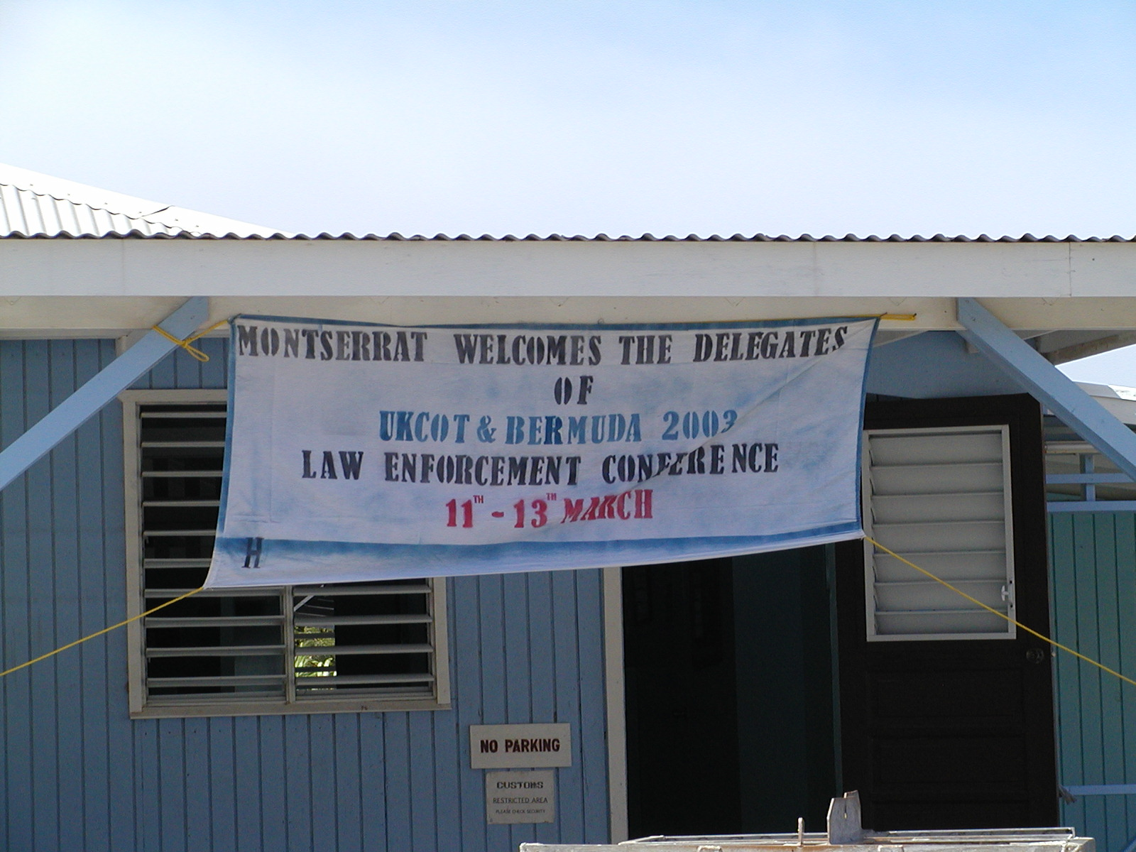 Government Welcome Center in Brades, Montserrat, Lesser Antillies, Caribbean